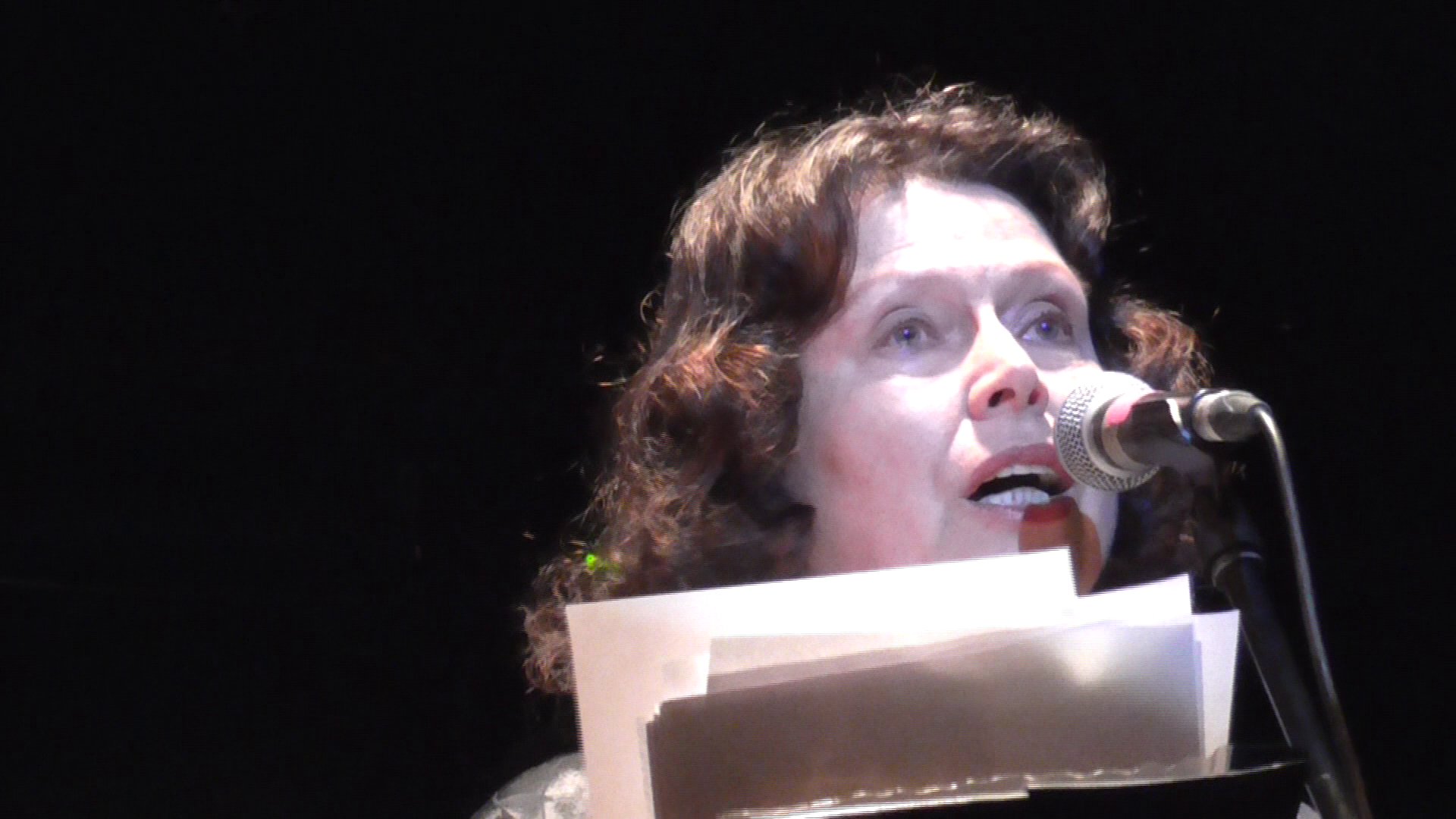 Katalin Ladik in the Netizeneszerzetek event